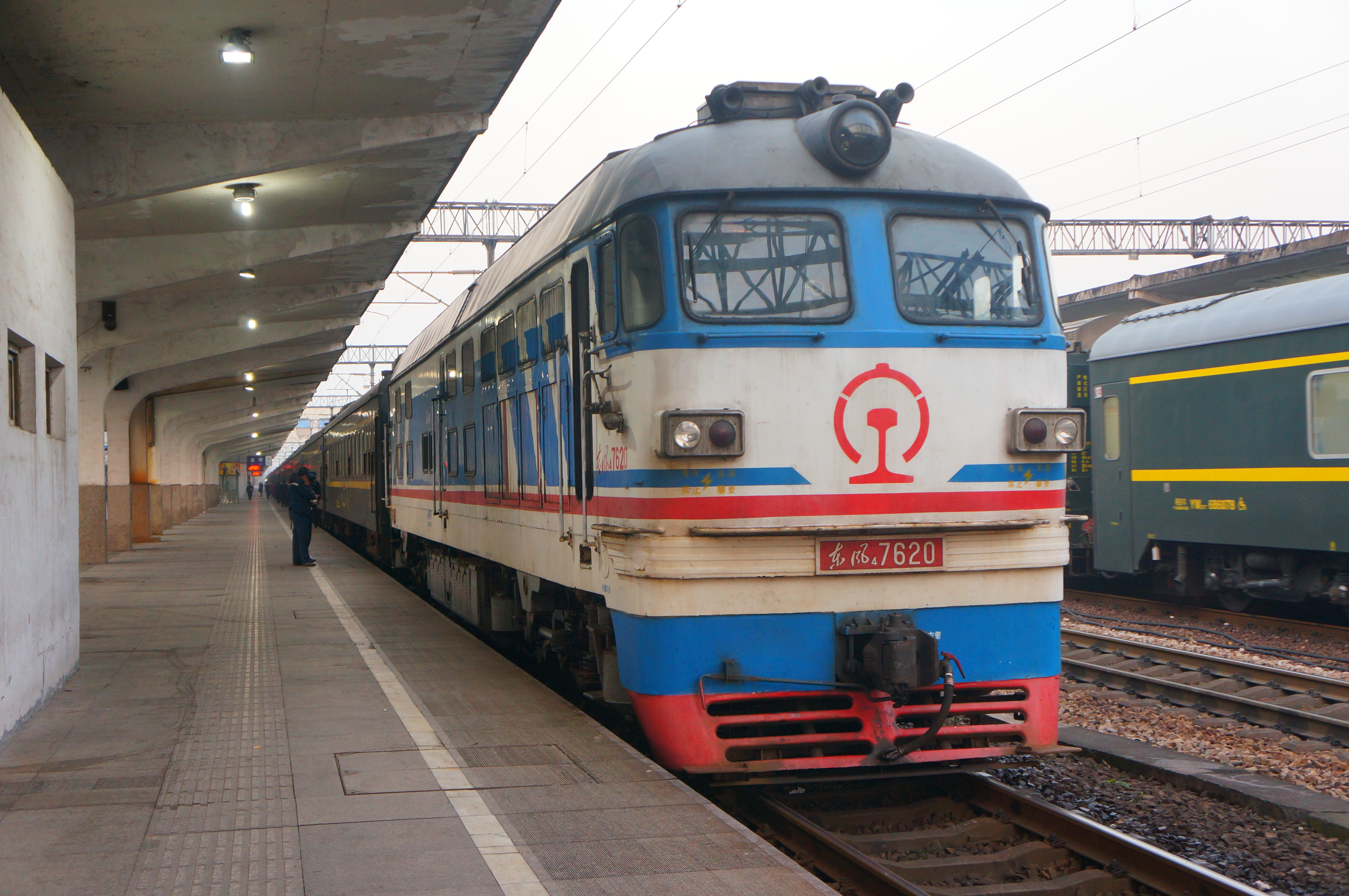 201701 DF4B-7620 hauls K306 at Jinhua Station. DF4B-9499 had not been added.